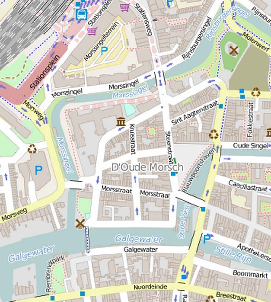 Buurtje D'Oude Morsch on OpenStreetMap, Leiden, Netherlands